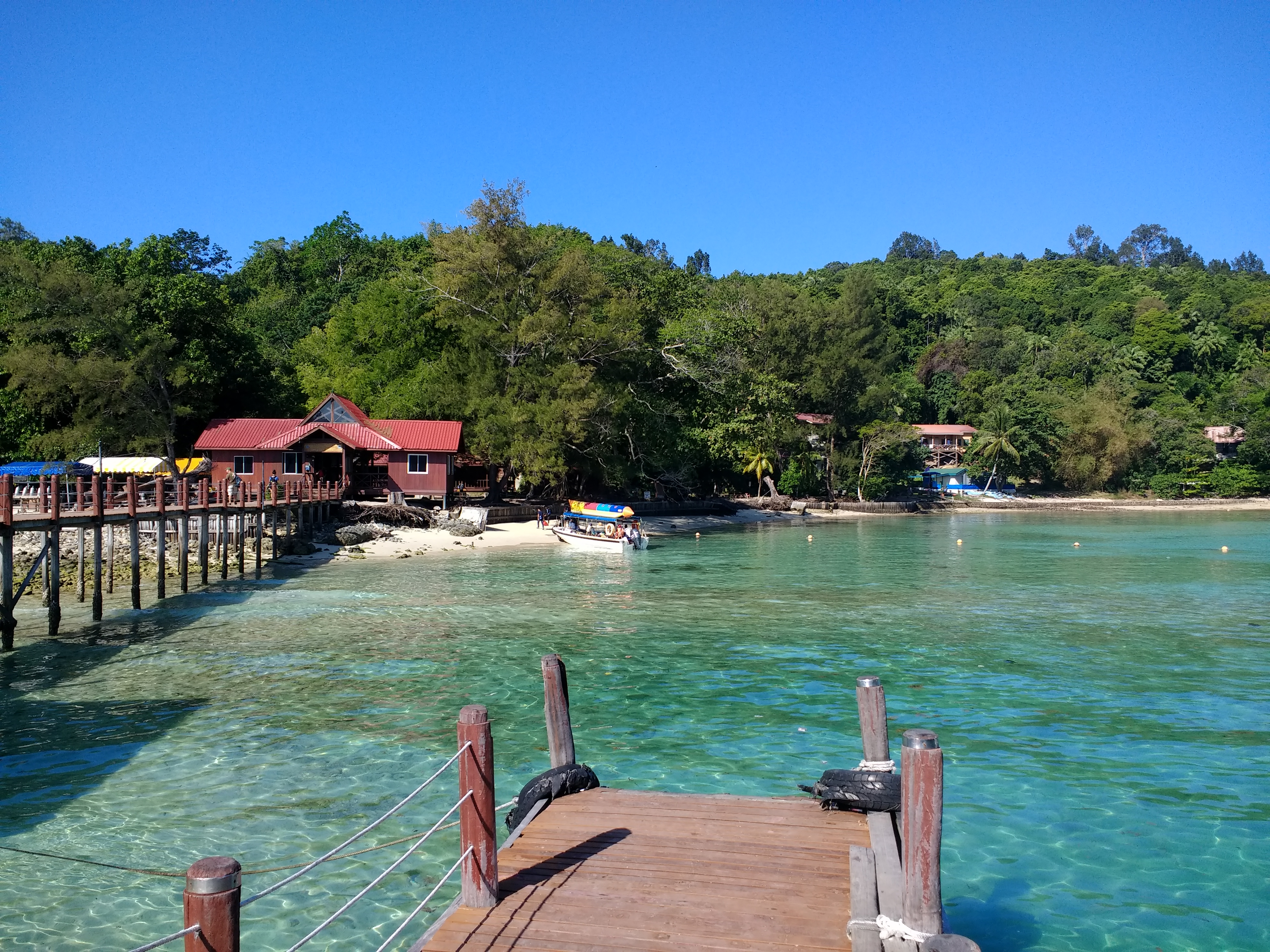 Sapi Island in Tunku Abdul Rahman National Park.